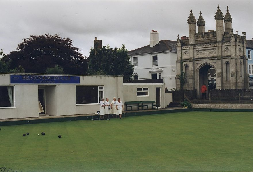 Bowlingclub an the Grylls Monument